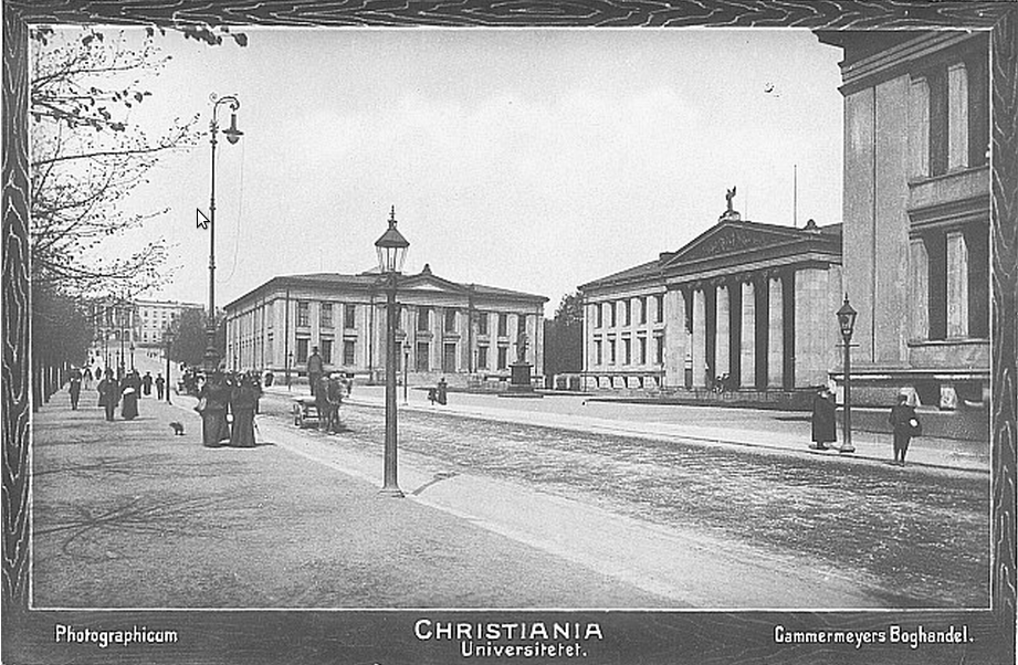 Playwright Henrik Ibsen checks his pocket watch against the clock at Oslo University, contemporary postcard. ca. 1900